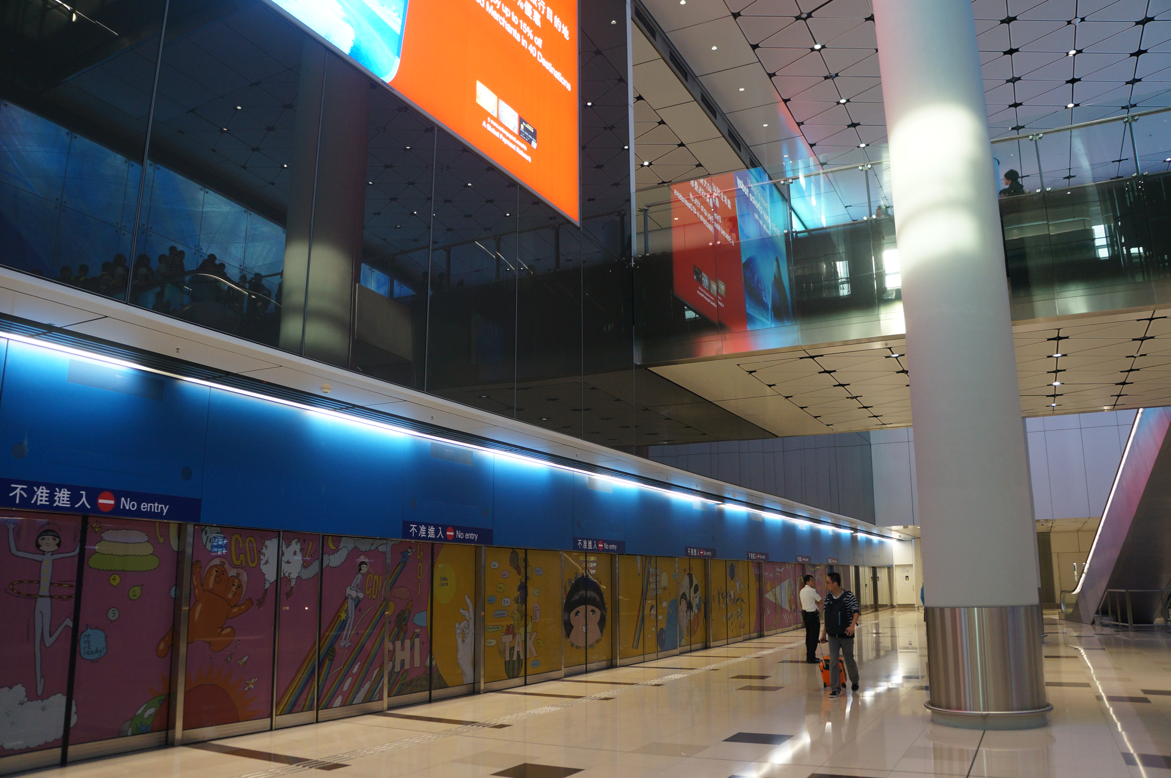 201610 Platform of HKG-APM Midfield Concourse Station (Departure)